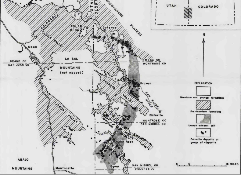 USGS Uravan Mineral Belt